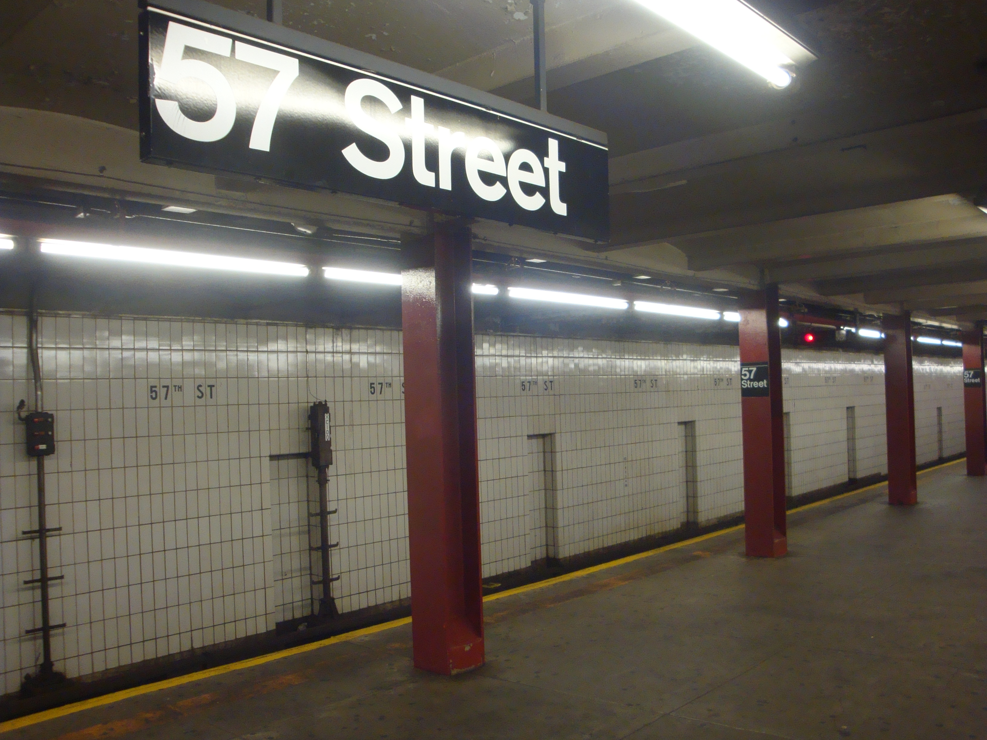 57th. Street Station, IND Sixth Avenue Line, New York City.